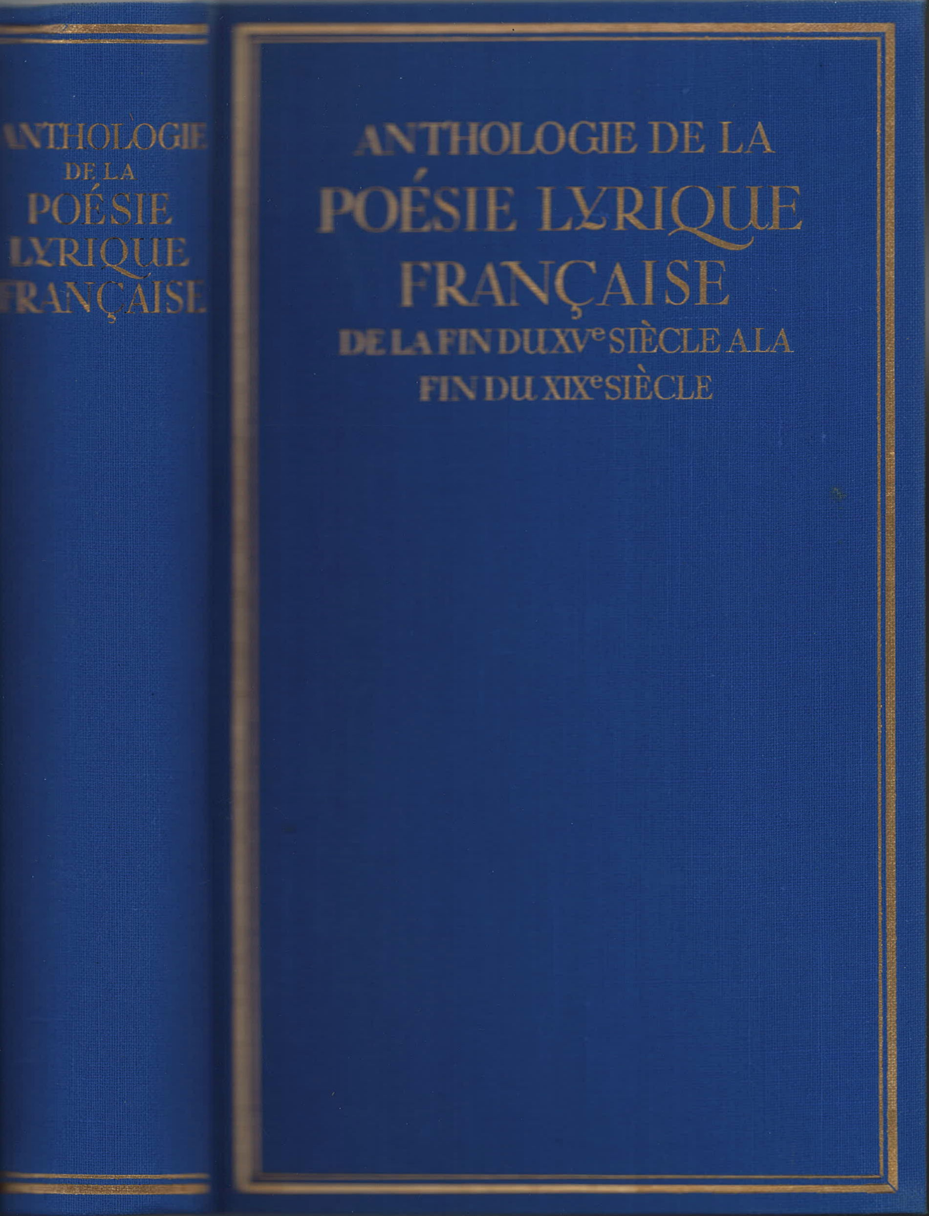 Duhamel: Anthologie francaise, Insel Verlag 1923, Frontcover, spine